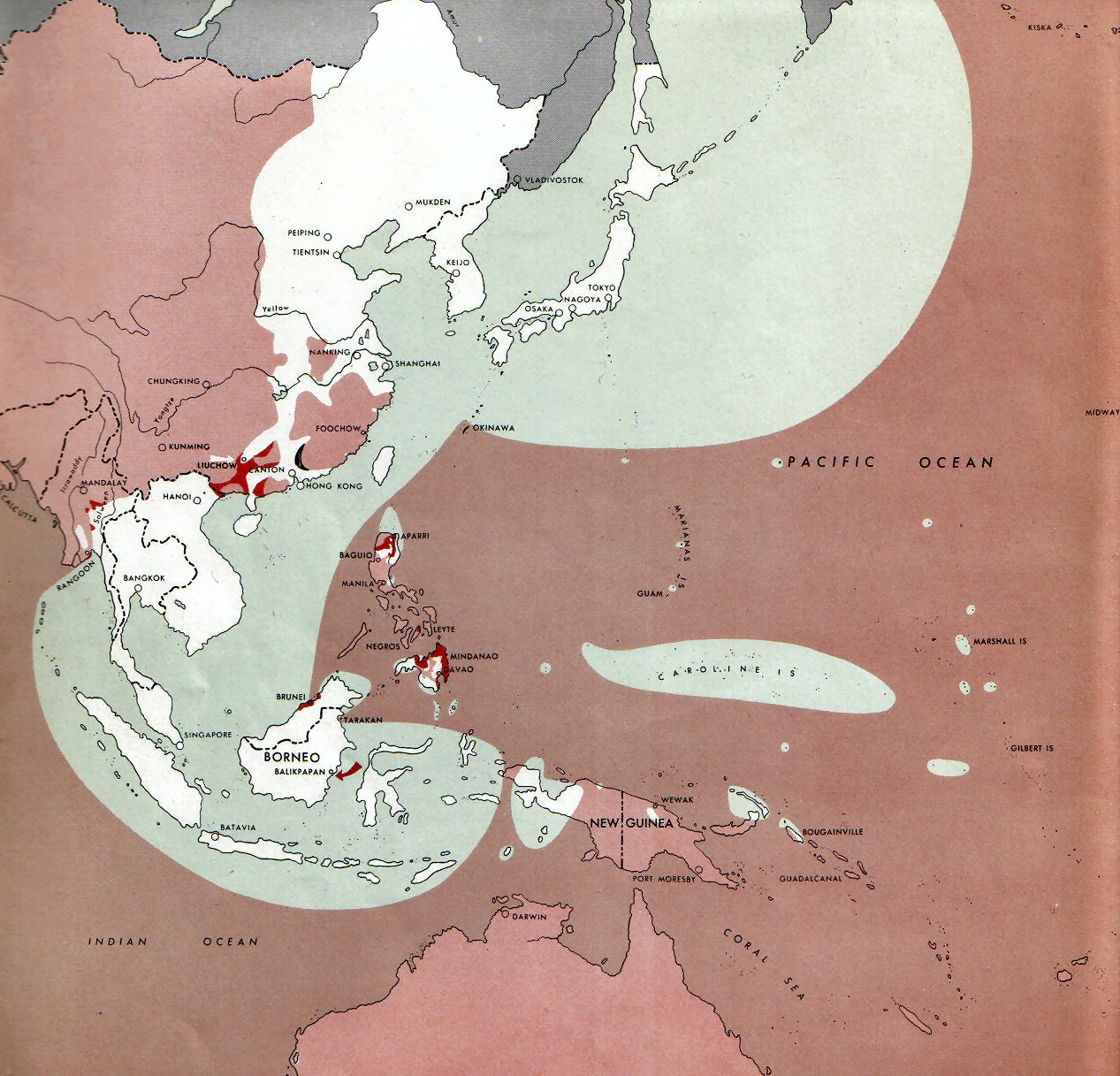 Map of the front against Japan as of 1 Jul 1945: This map is taken from the source "Atlas of the World Battle Fronts in Semimonthly Phases to August 15th 1945: Supplement to The Biennial report of The Chief of Staff of the United States Army July 1, 1943 to June 30 1945 To the Secretary of War". (See Cover, Forward and Map details)